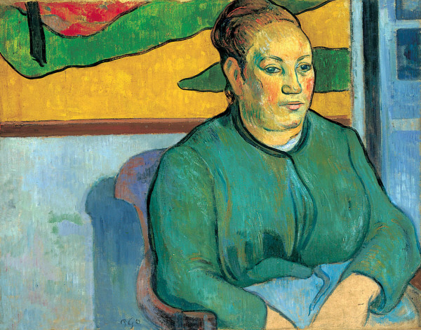 Depicted person: Augustine Roulin (1851 - 1930) Birth name: Augustine Alix Pellicot